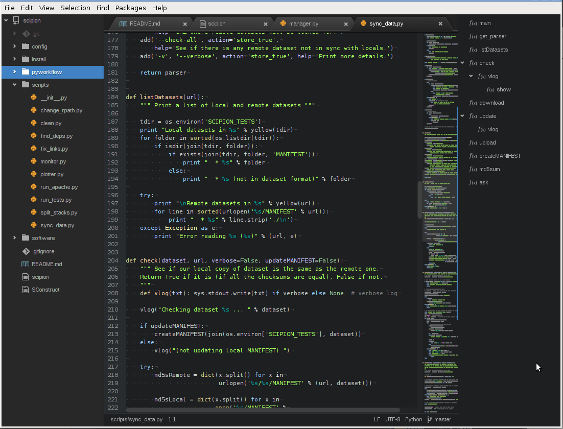 Screenshot of Atom text editor v1.3.1